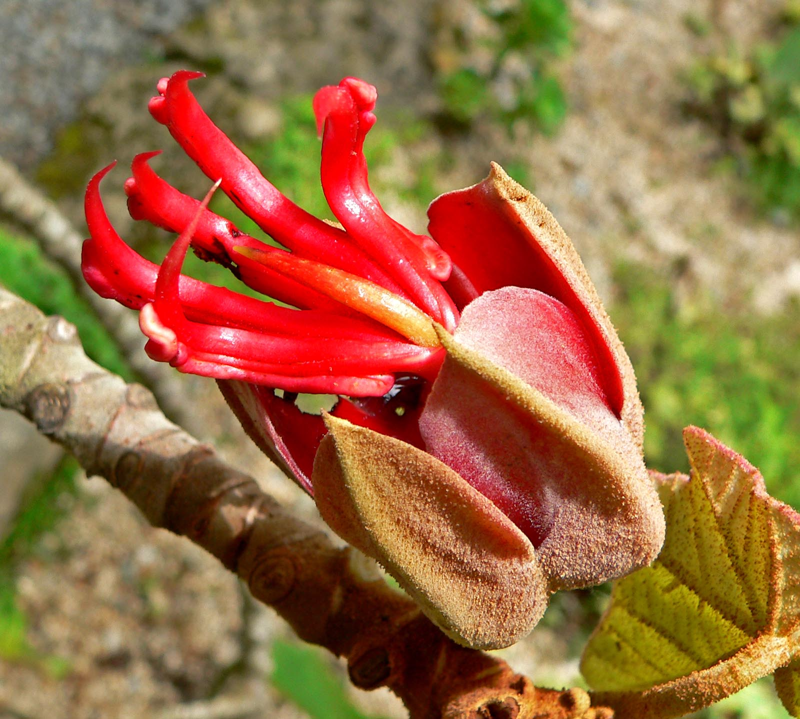 Photo of Chiranthodendron pentadactylon (Mexican hand tree) — at the San Francisco Botanical Garden